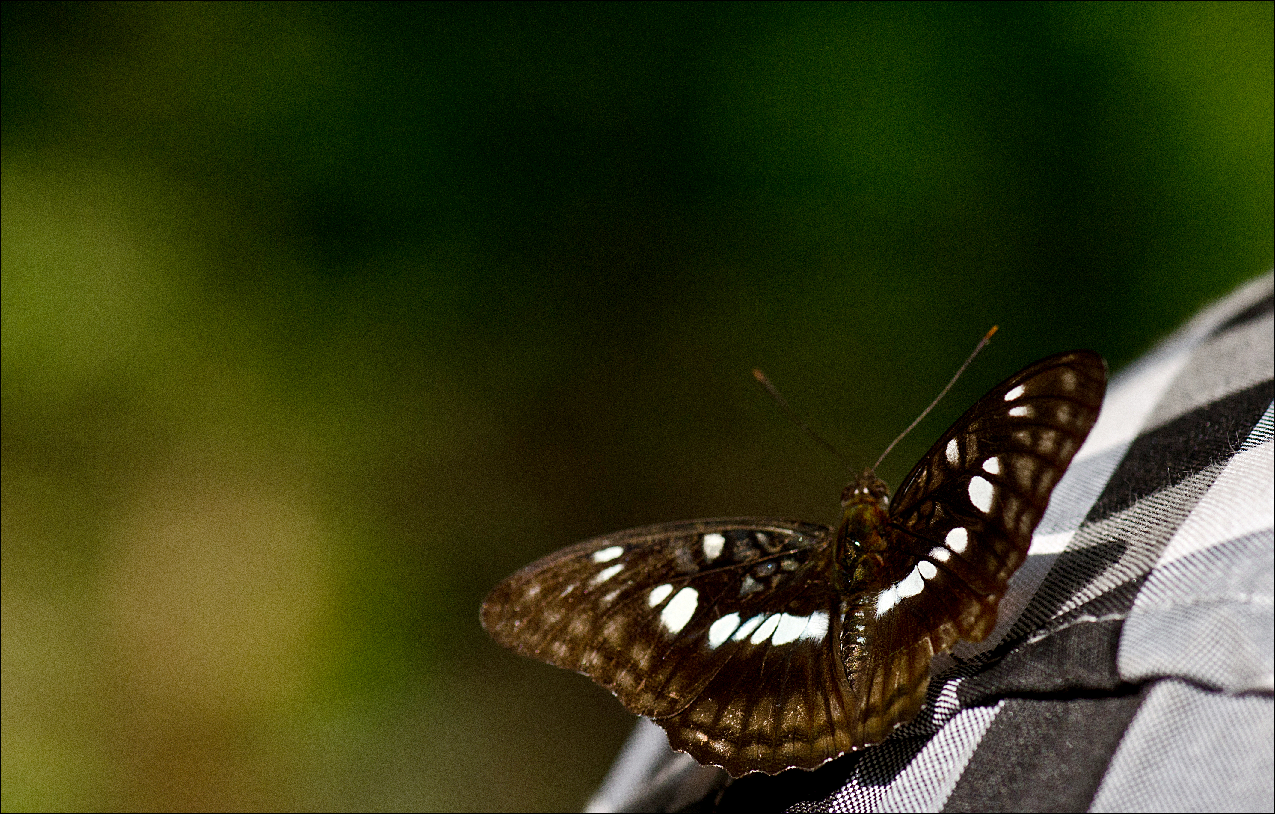 The Blackvein Sergeant (Athyma ranga) is a species of nymphalid butterfly recorded from Aralam WLS,Kerala.